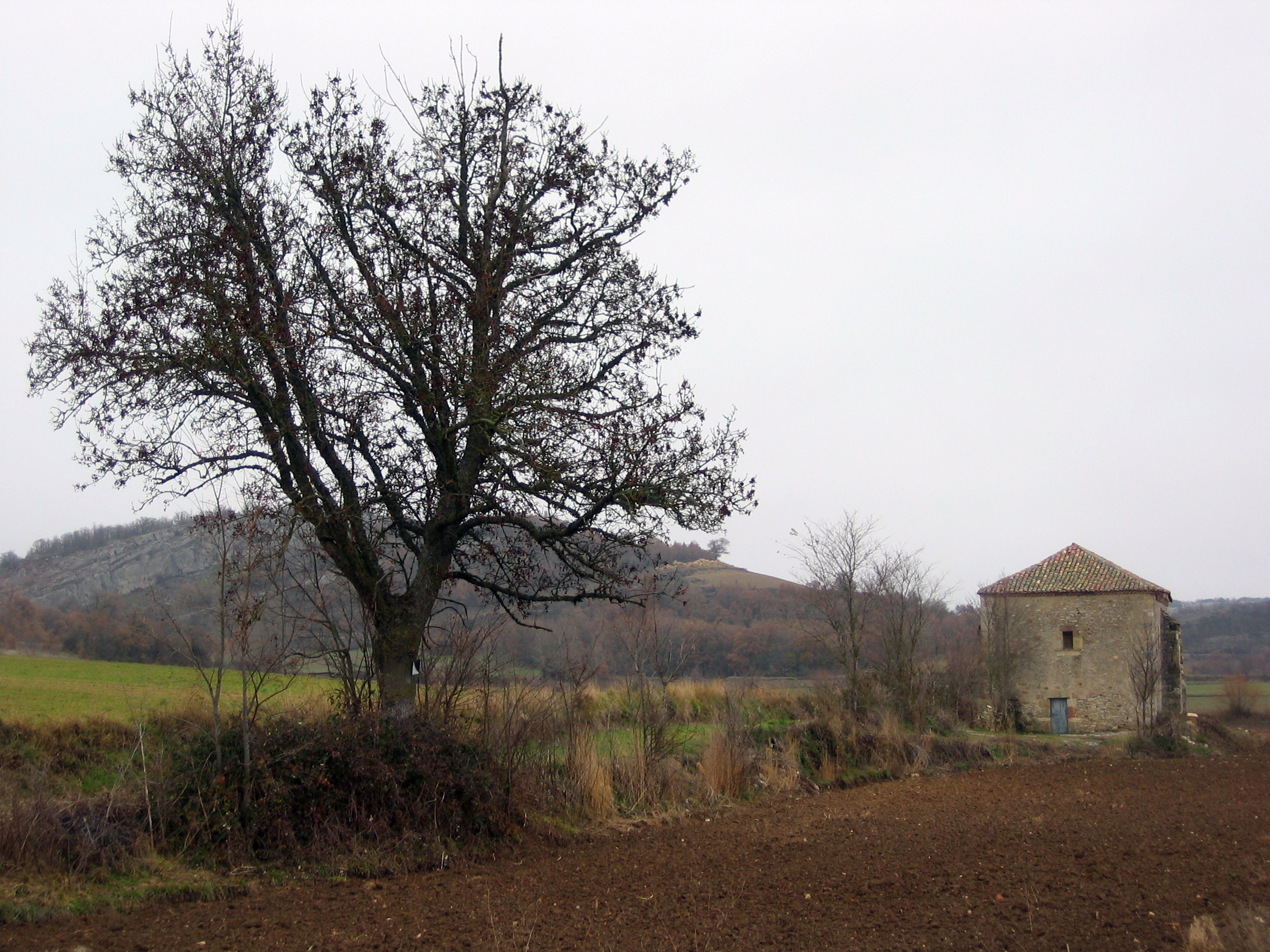 Shrine of Saint Lucia in Rebolleda (Burgos, Spain). A single nave tardo-románico Temple. Abroad presents buttresses and canecillos decorate. As a decorative element uses the characteristic red sandstone in vain and doors can also be found in other nearby temples as the monastery of Santa Maria de Mave. Highlights the decorative simplicity facade is the gateway to the temple, which suggests maybe in another initial project that was forced to be finished with the current aspect. This fact is backed by the difference in this facade, which disappear for an auction done with tiles, canecillos cornice indicating at least two-phase constructive.